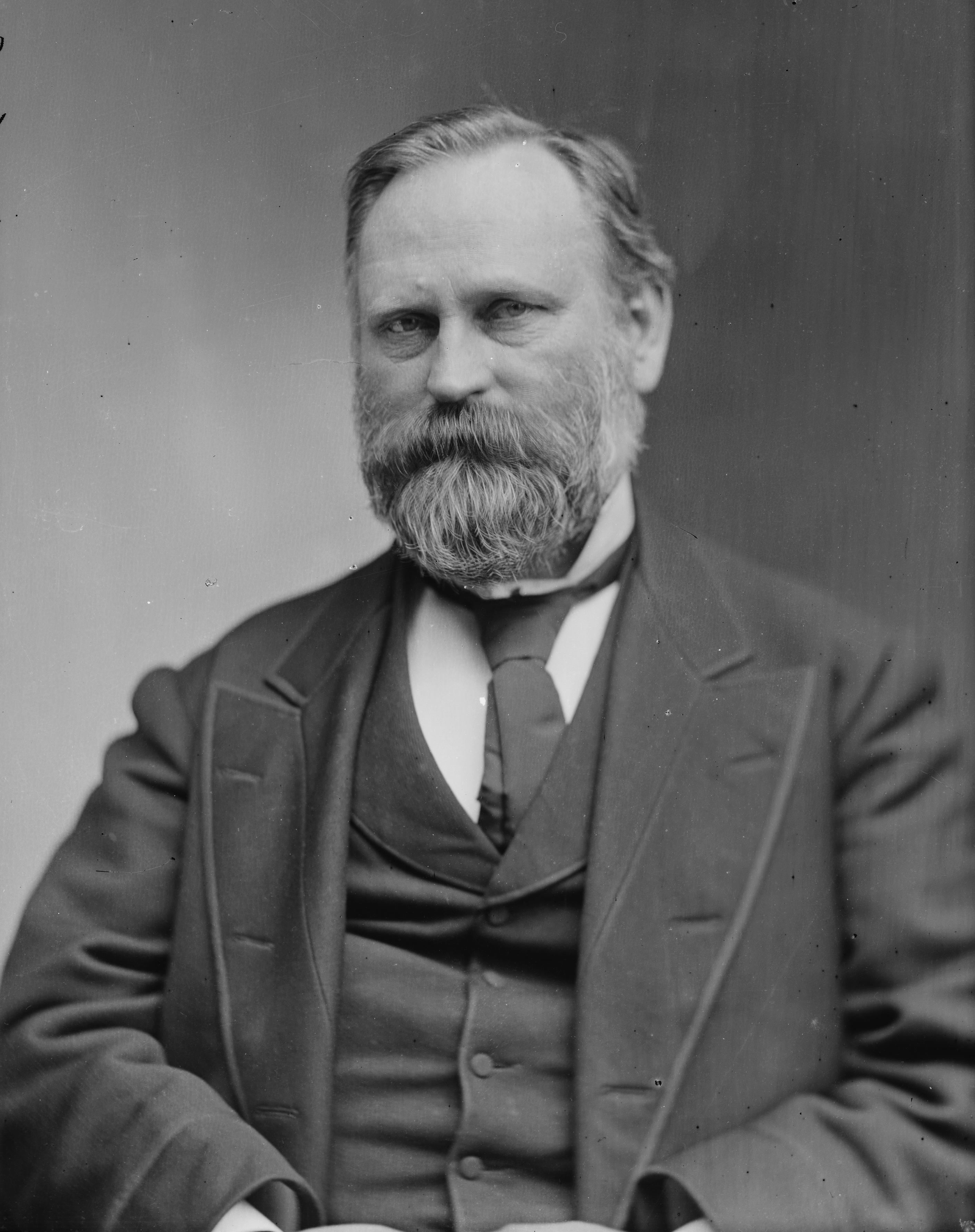 Thomas Stanley Matthews. Library of Congress description: "Mathews, Judge Stanley".